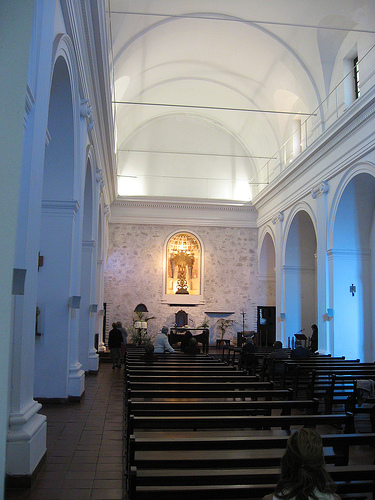 Church in Colonia del Sacramento, Uruguay